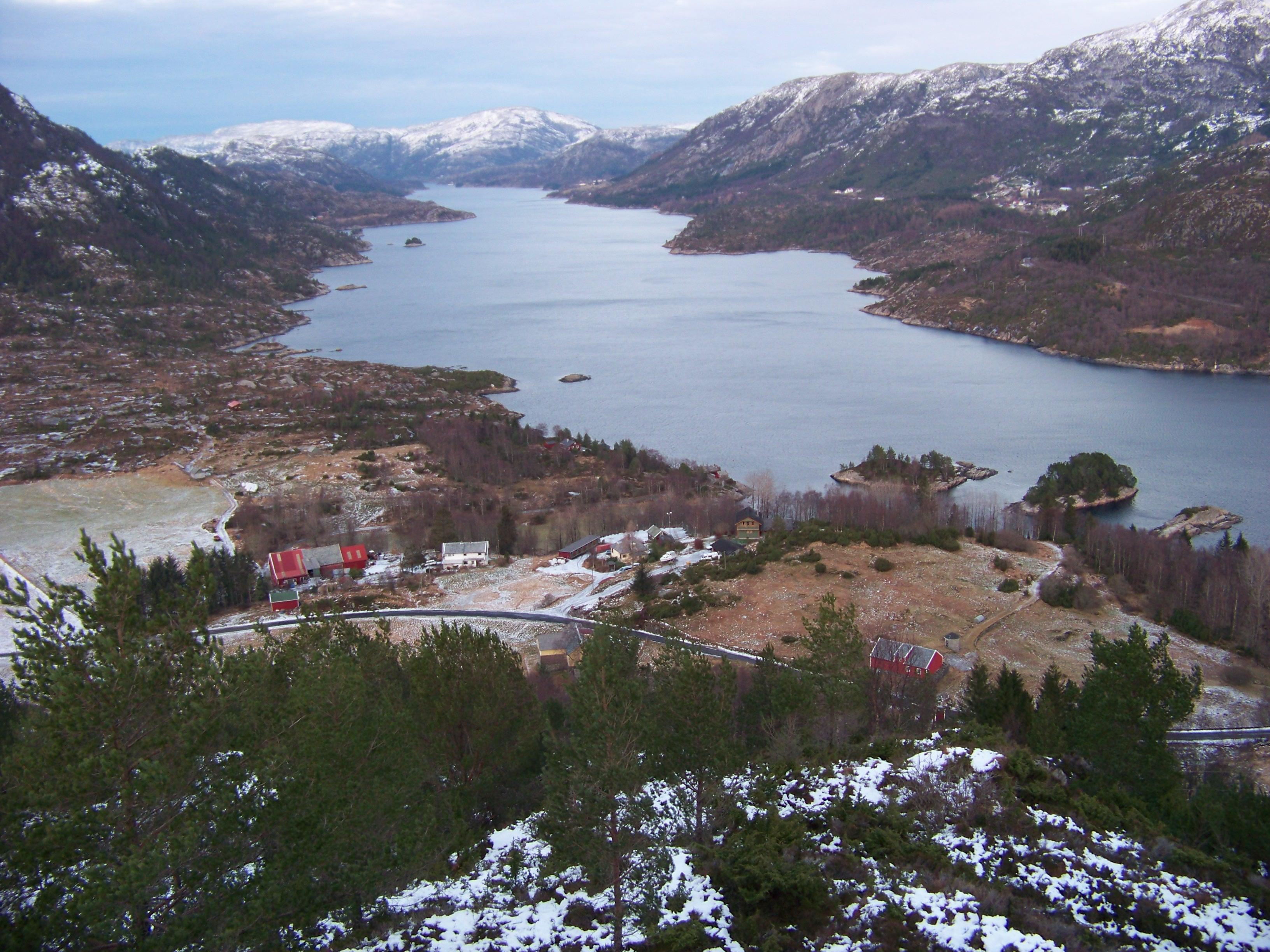 Eidsfjorden in Gulen, Norway. The fjord seen towards north.